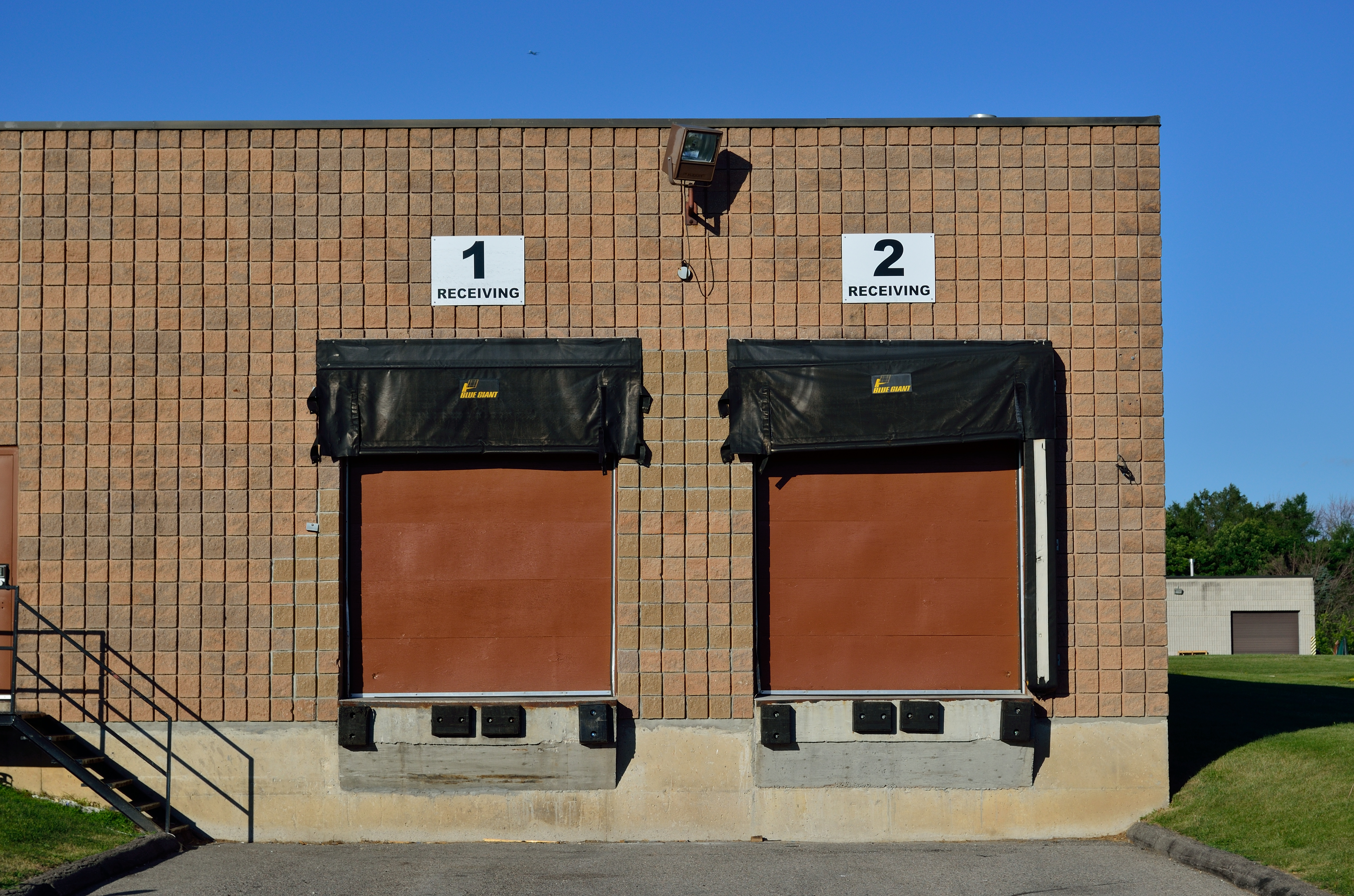 A loading bay.